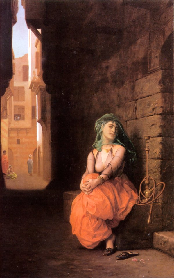 Arab Girl with Waterpipe